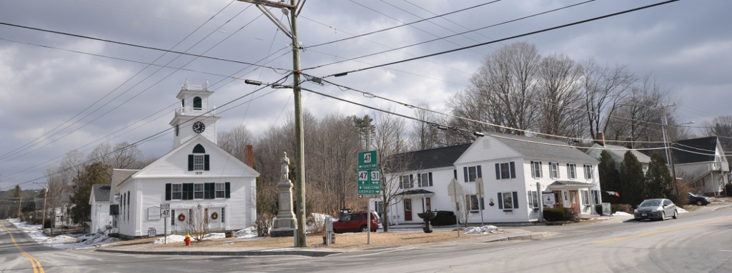 Bennington Village Historic District, Bennington, New Hampshire.